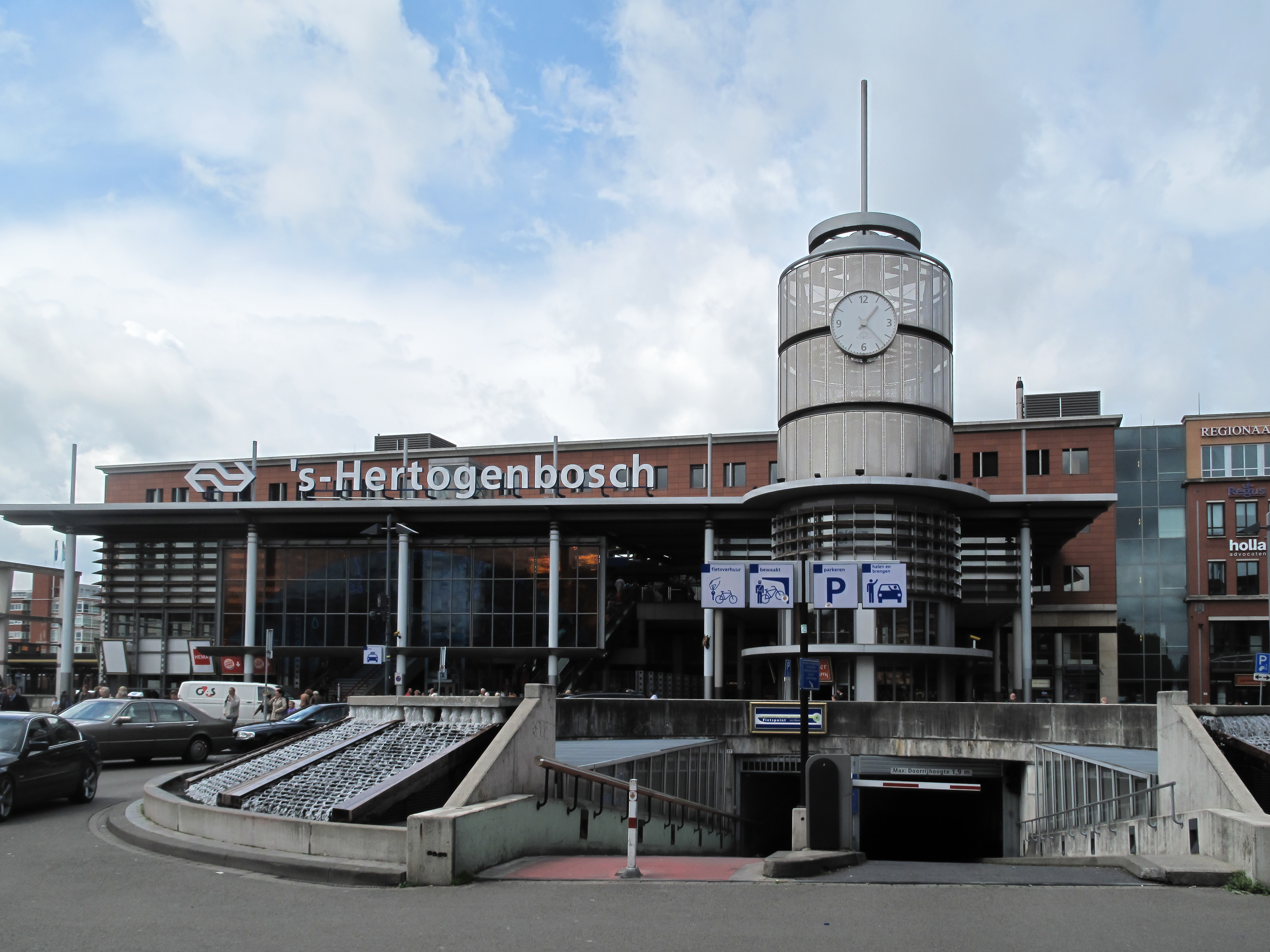 sHertogenbosch, railway station